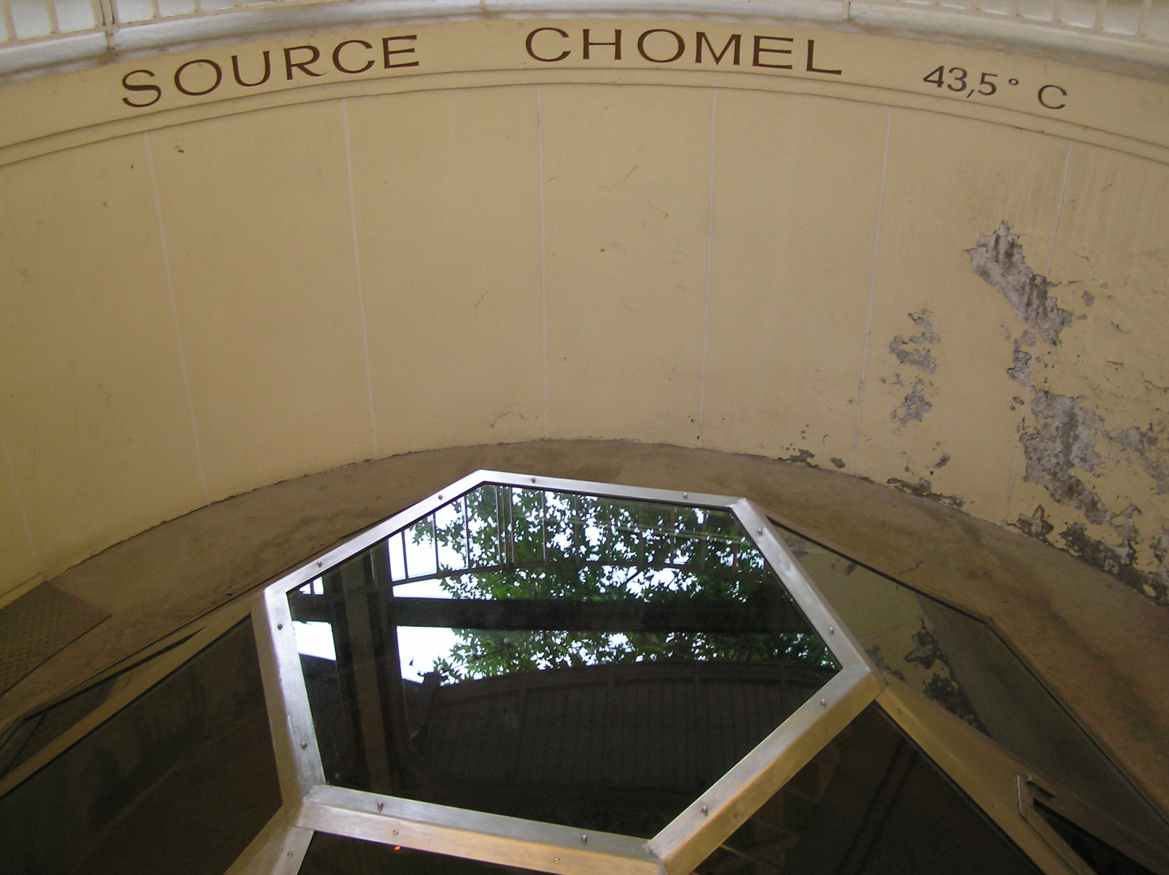 Hot source of Chomel (Vichy)